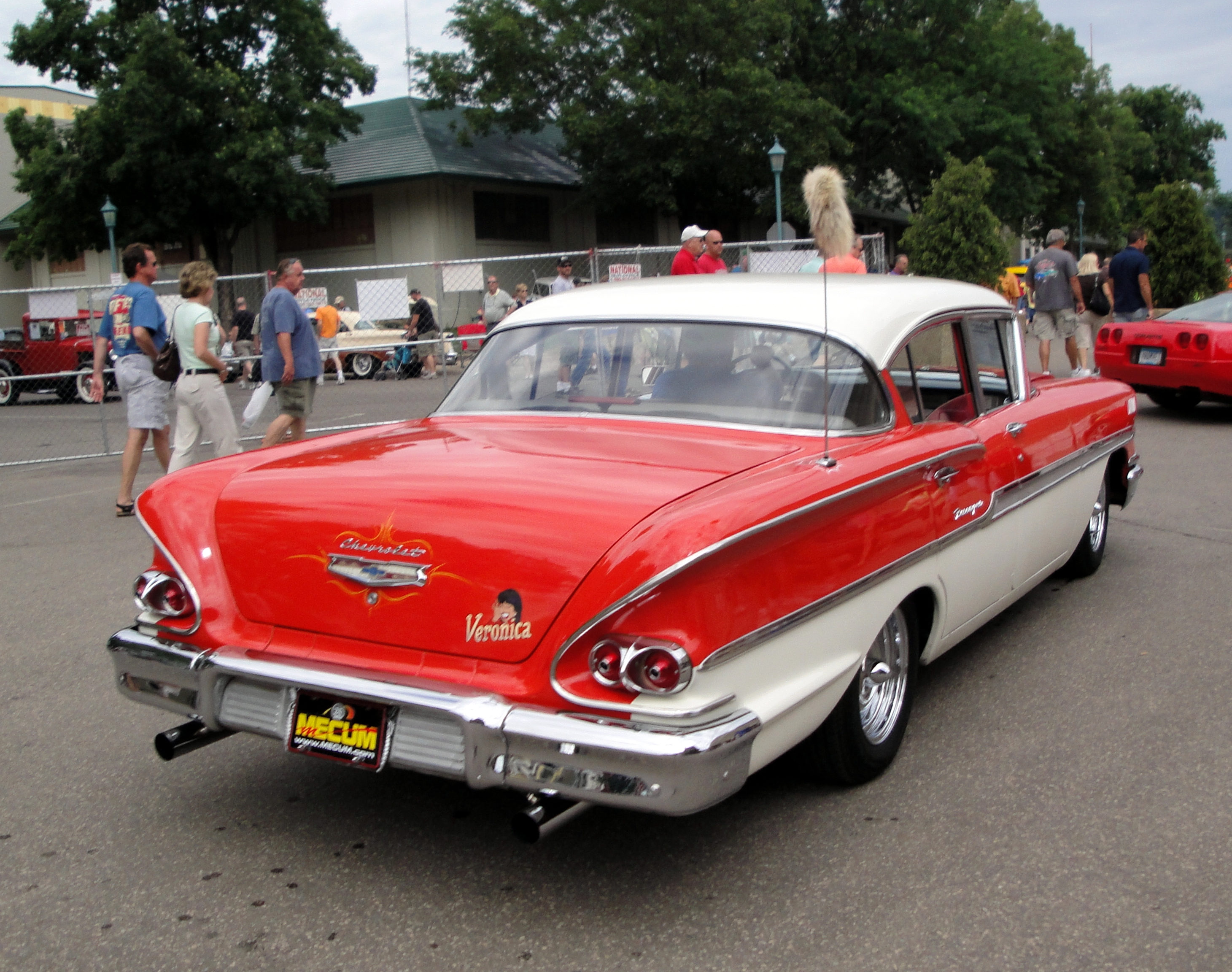 Minnesota Street Rod Association 39th Annual "Back to the Fifties" June 2012 Minnesota State Fairgrounds St. Paul MN